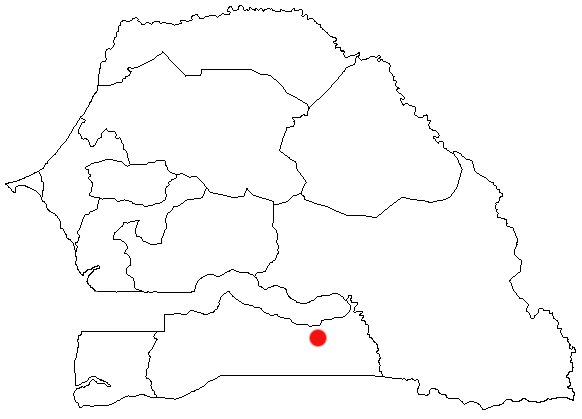 Vélingara, Senegal Location Map; created with the GIMP.